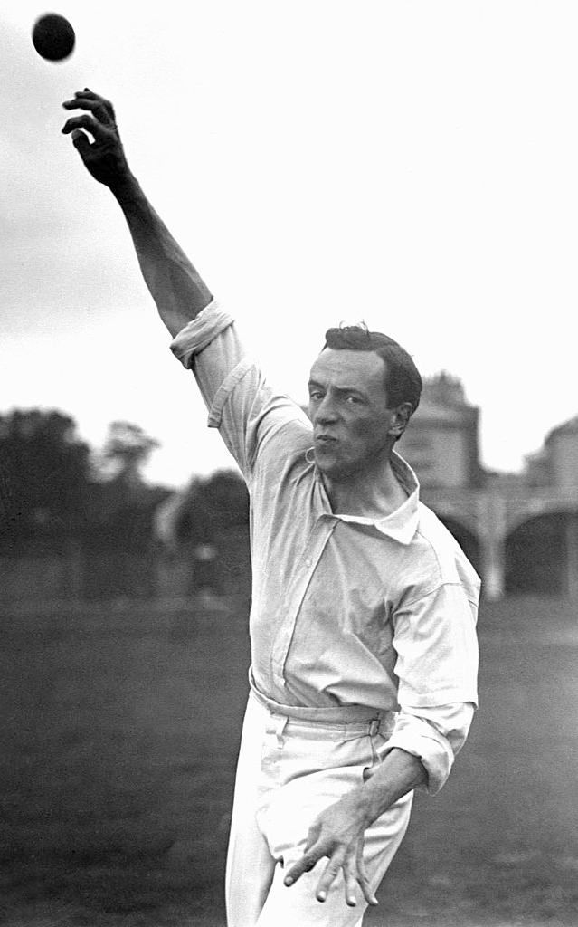 Bernard Bosanquet bowling a leg break, photographed by George W Beldam